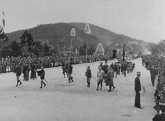 Jidai Matsuri in 1895